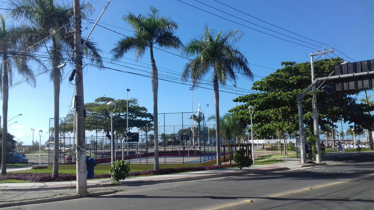 The main square of Jacaraípe